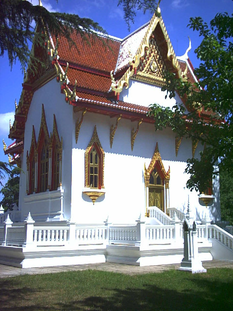 Buddhapadipa Temple, Calonne Road, Wimbledon. Buddhist Temple.